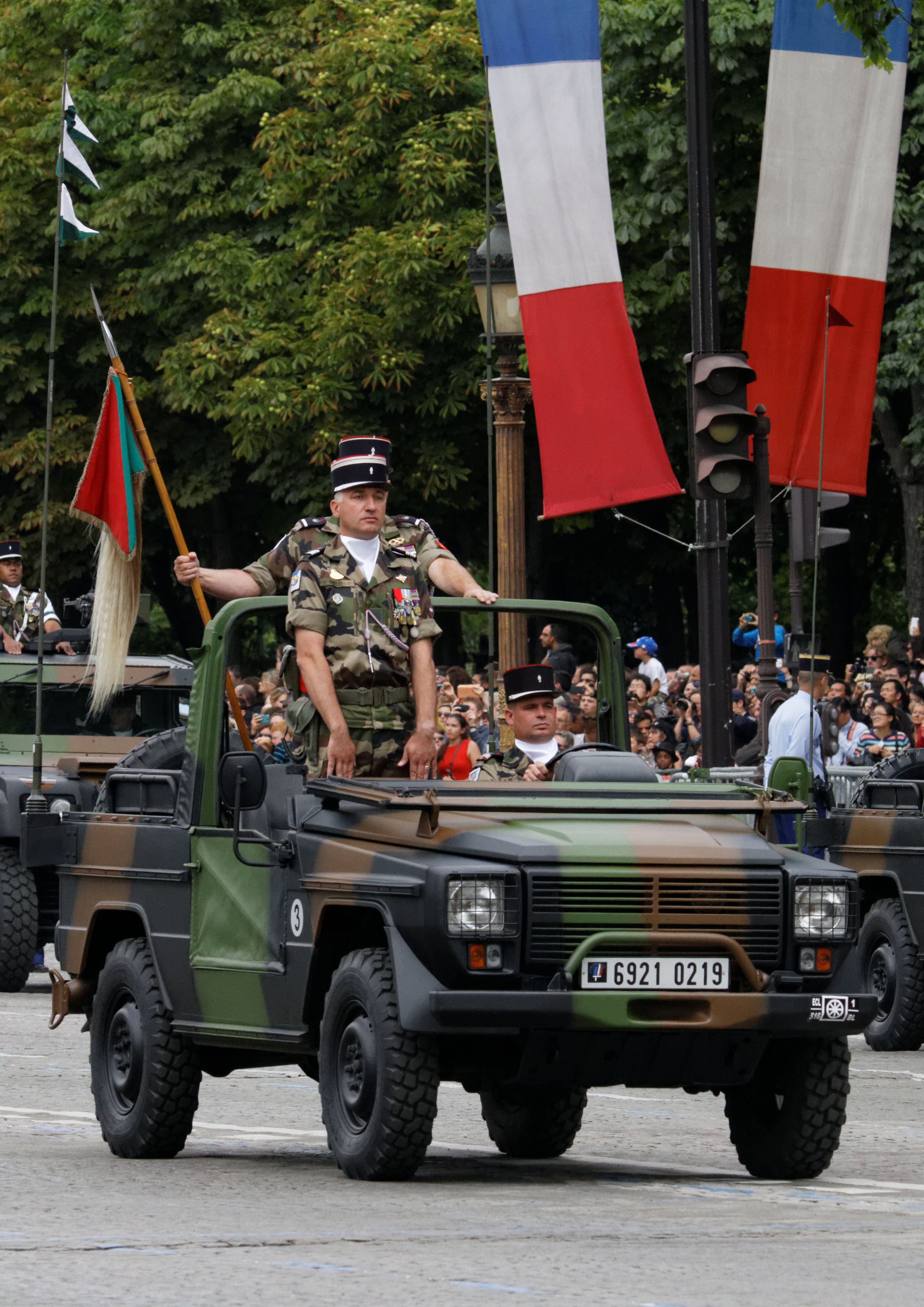 Bastille Day 2014 military parade on the Champs-Élysées in Paris. Motorised troops.